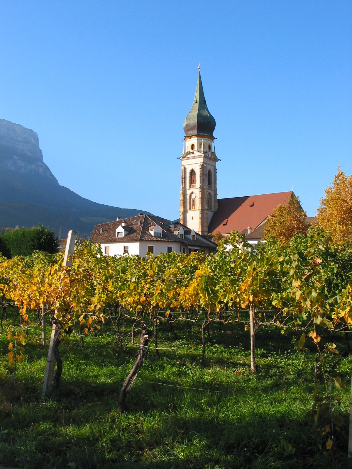 Sankt Paul village in Eppan, South Tyrol, Italy